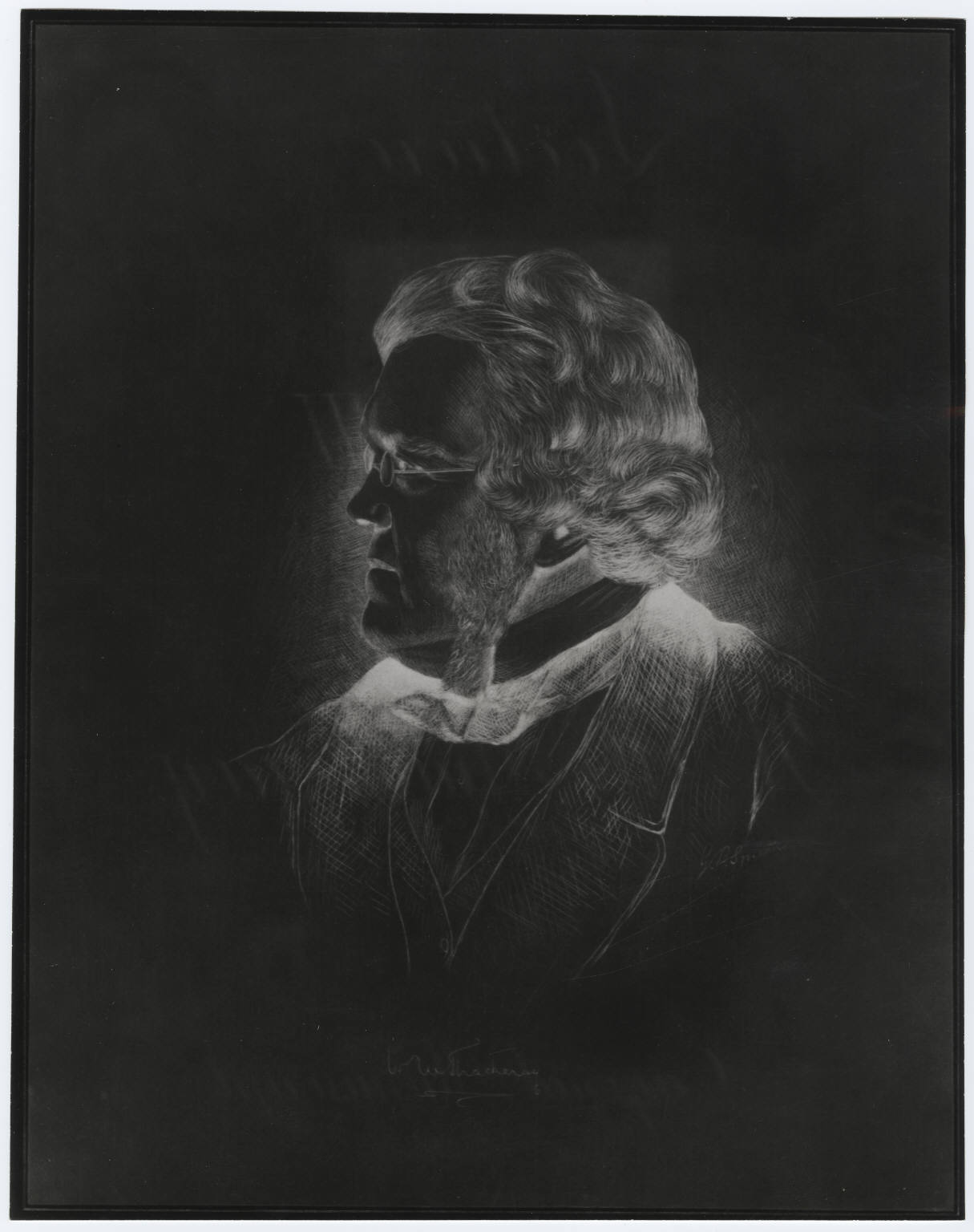 Etching of the author William Makepeace Thackeray by the artist George Barnett Smith (1841-1909). 23.9 cm. x 19 cm. General Collection, Beinecke Rare Book and Manuscript Library, Yale University, New Haven, Connecticut.